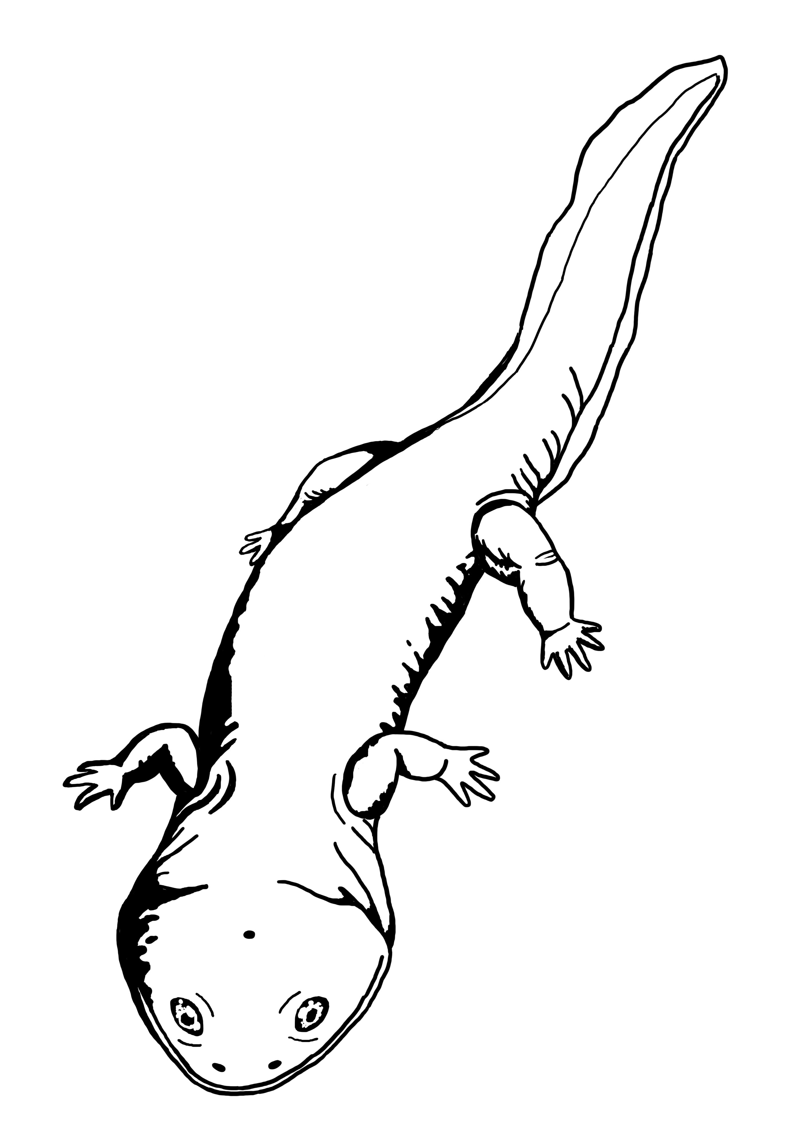 Life restoration of Vigilius wellesi. Based on Figure 3 of "A phylogeny of the Brachyopoidea (Temnospondyli, Stereospondyli)" by Anne Warren and Claudia Marsicano (Journal of Vertebrate Paleontology 20(3): 462-483).